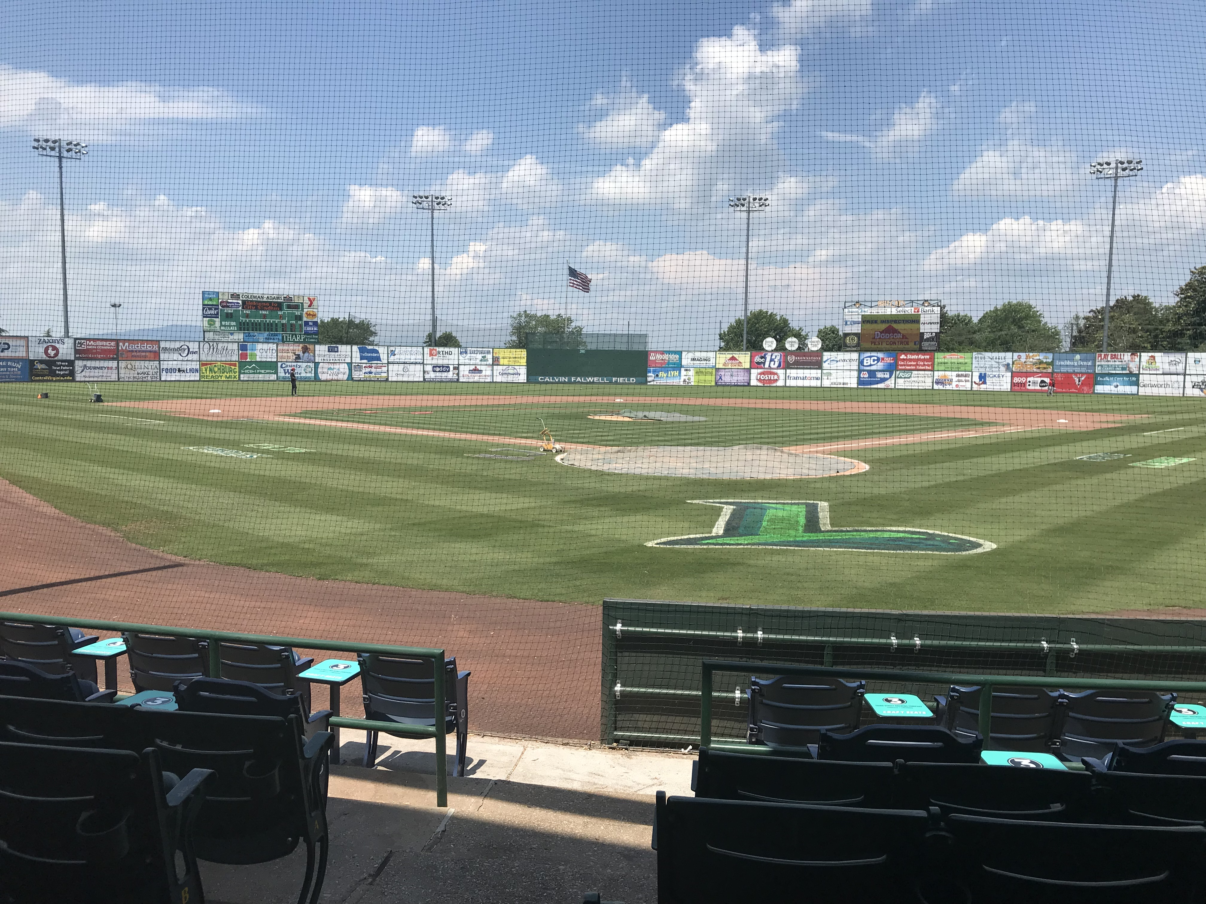 Inside Calvin Falwell Field